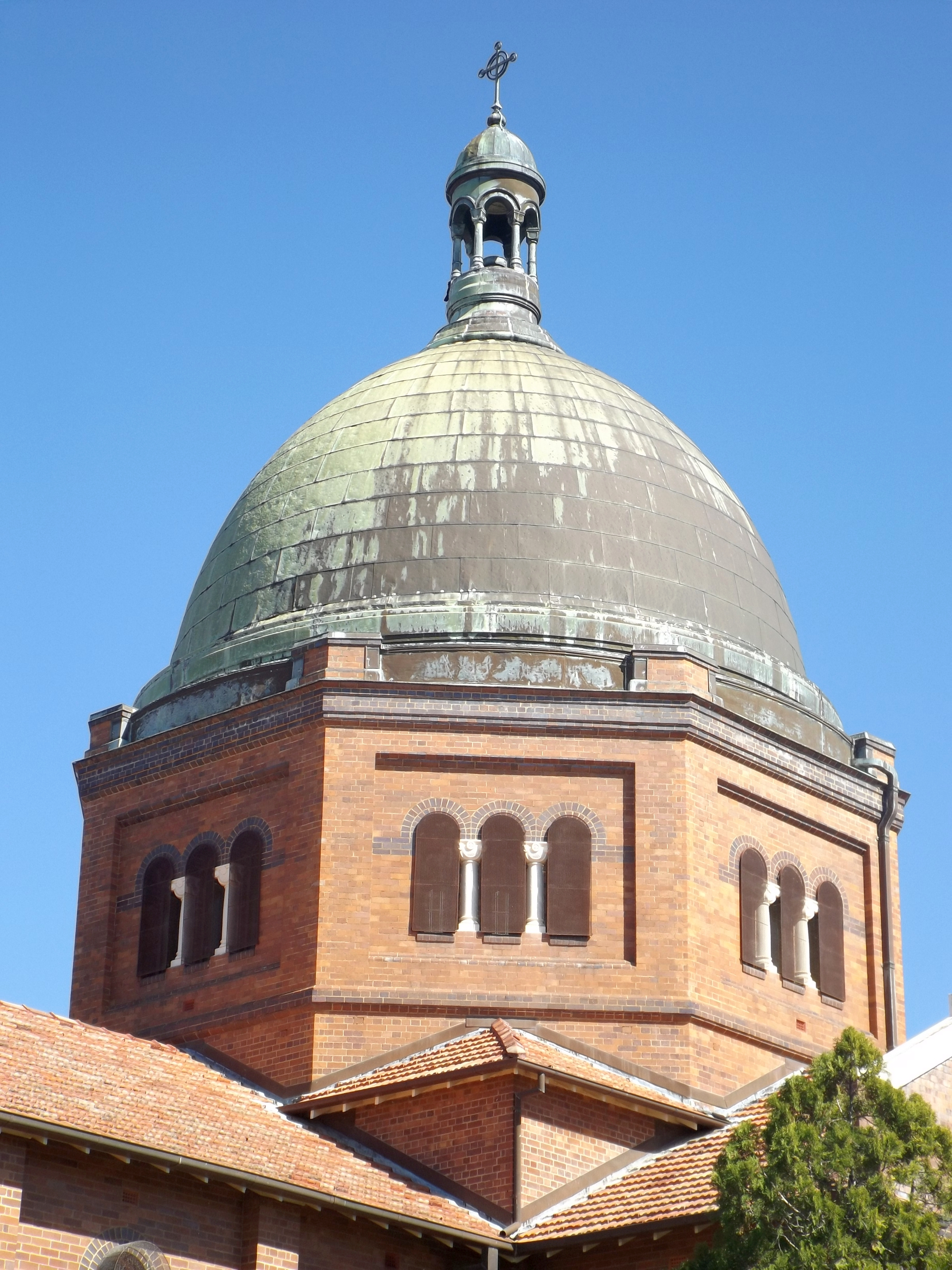 Photo of the dome on the Corpus Christi Church at Nundah, Brisbane, Queensland, Australia.